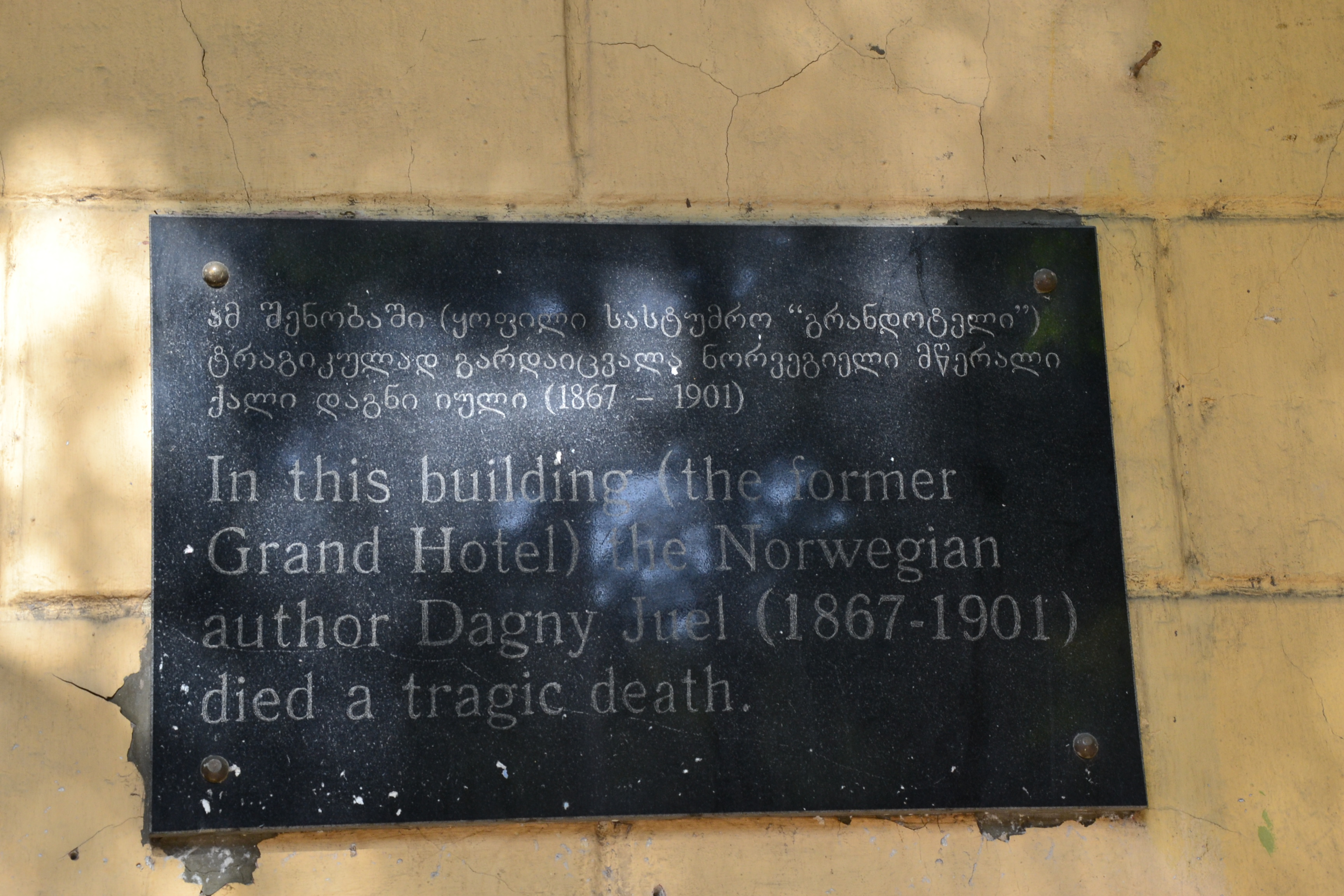 Table on the former Grand Hotel in Tbilisi where Dagny Juel-Przybyszewska was killed